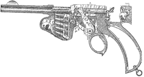 Sketch of the internals of the 1892 Austro-Hungarian Laumann pistol